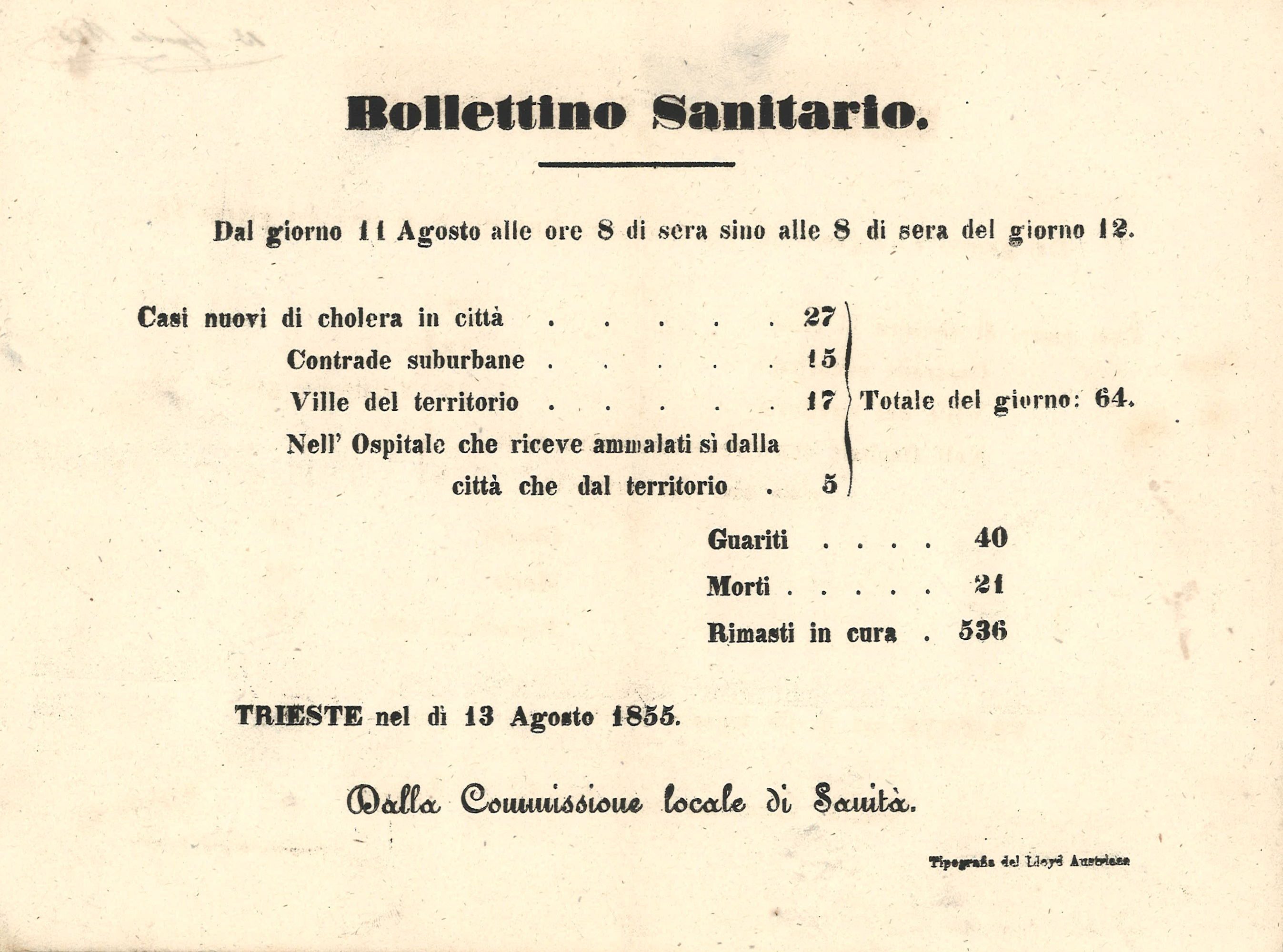 Bulletin of the state of the cholera disease in Triest on 08/11/1855